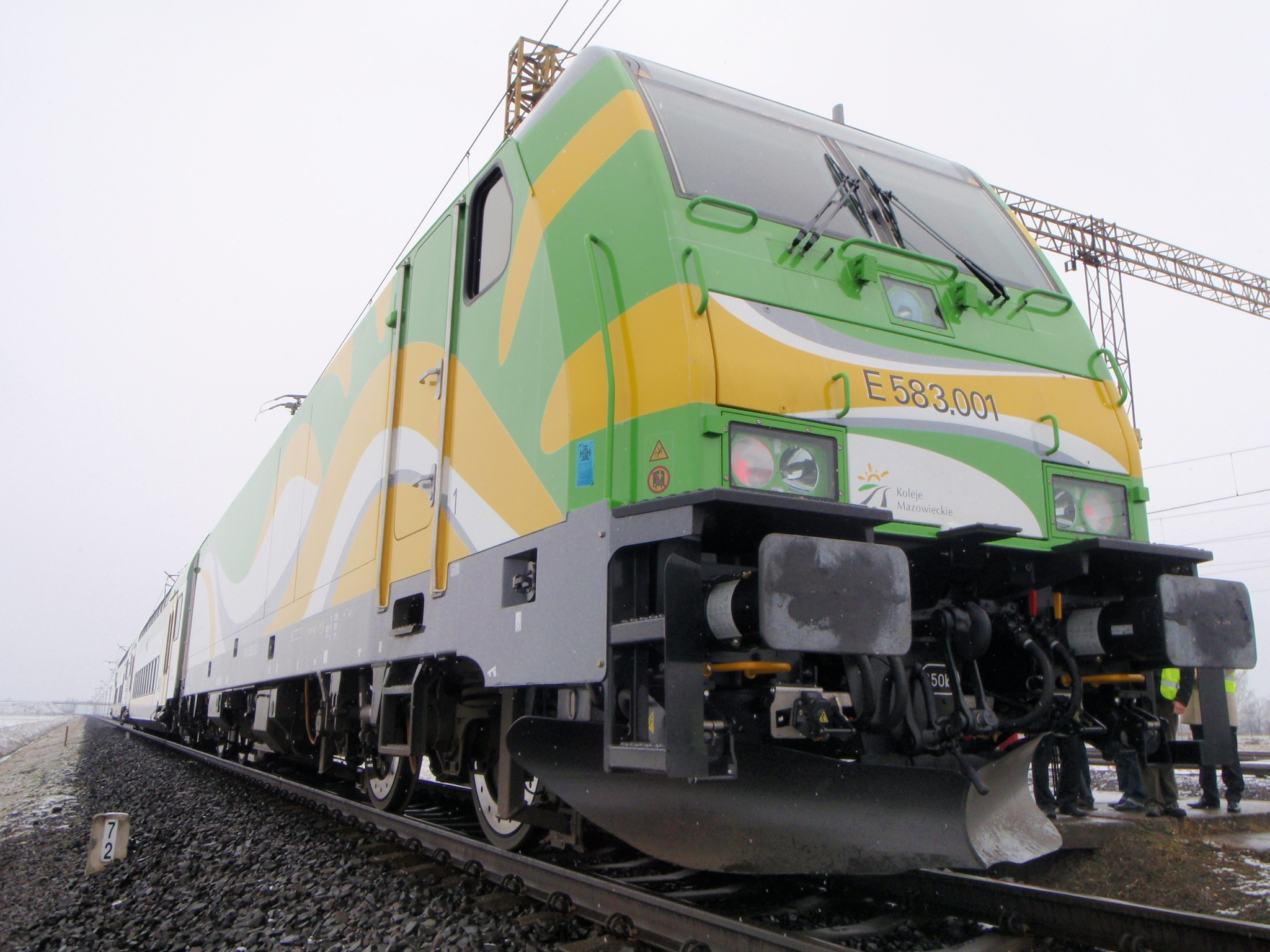 Locomotive TRAXX P160 DC "Hetman" for Koleje Mazowieckie